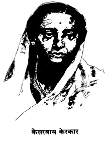 Kesarbai Kerkar